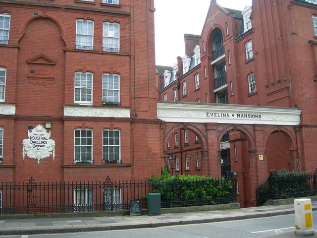 Evelina Mansions SE5. This is on New Church Road. Built on the site of a village duck pond and completed in 1900. The first tenants were moved into 96 flats, these were one and two bedroom, without a bathroom and a coal fire for heating. The Indutrial Dwellings Society took over the following company in 1952. IDS is on line and its offices are in Stamford Hill Nth London. The caption on the plaque reads "Four Per Cent Industrial Dwellings Company Ltd" which presumably indicated an interest rate, and the intended client group.